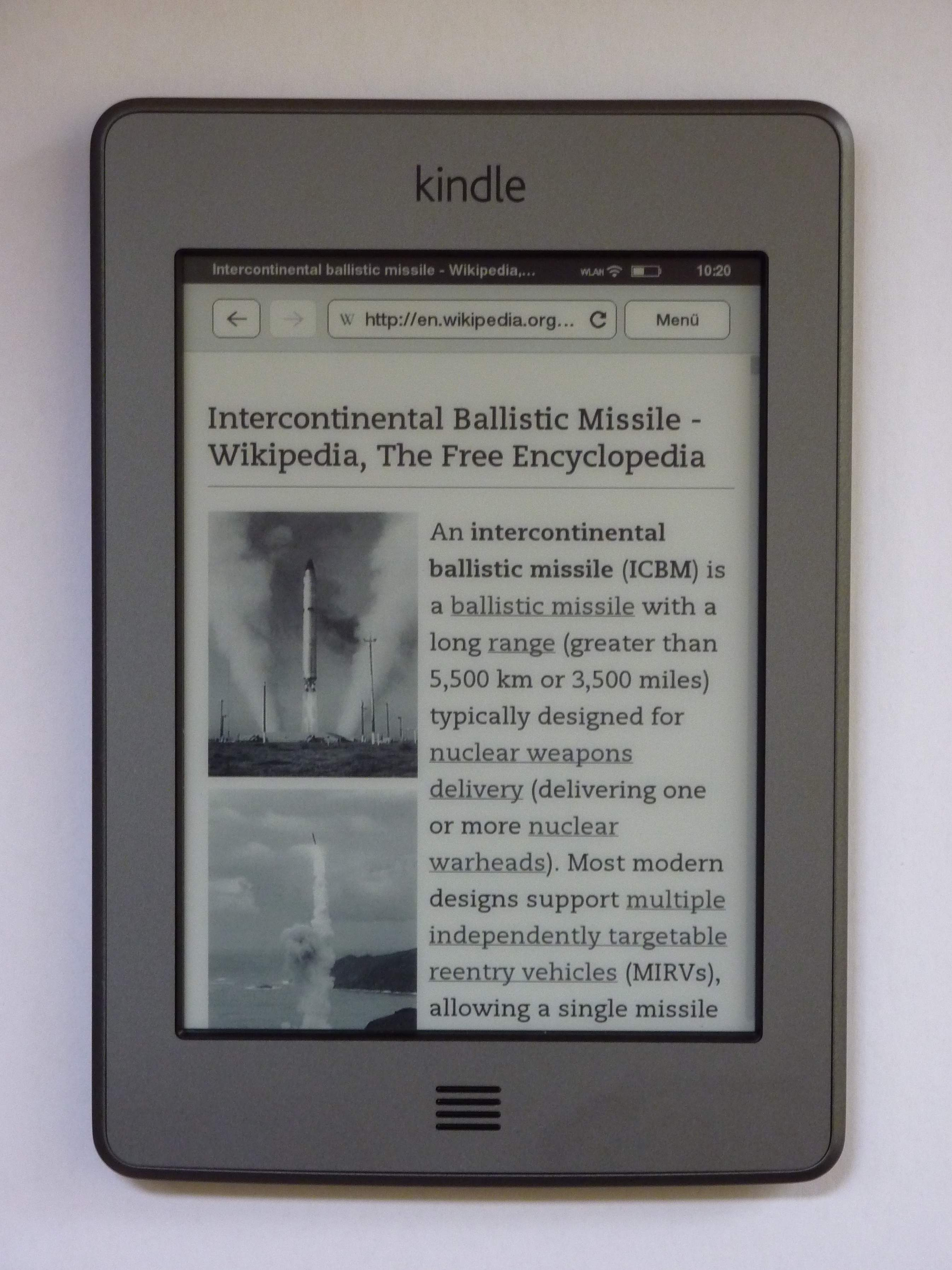 Kindle Touch browser